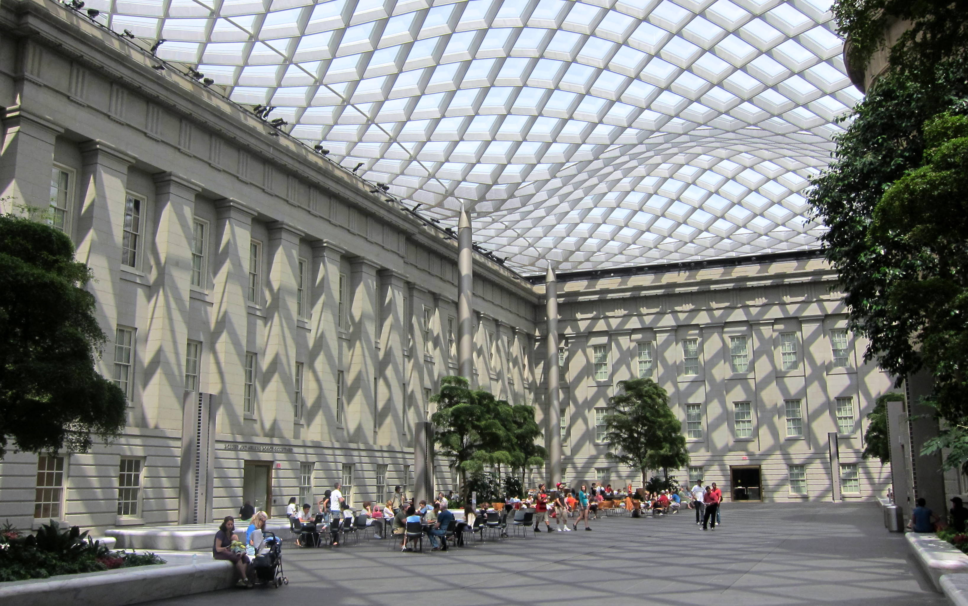 The Kogod Courtyard, designed by Foster and Partners and Buro Happold, located in the Old Patent Office Building in Washington, D.C.